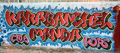 KarabanchelManda